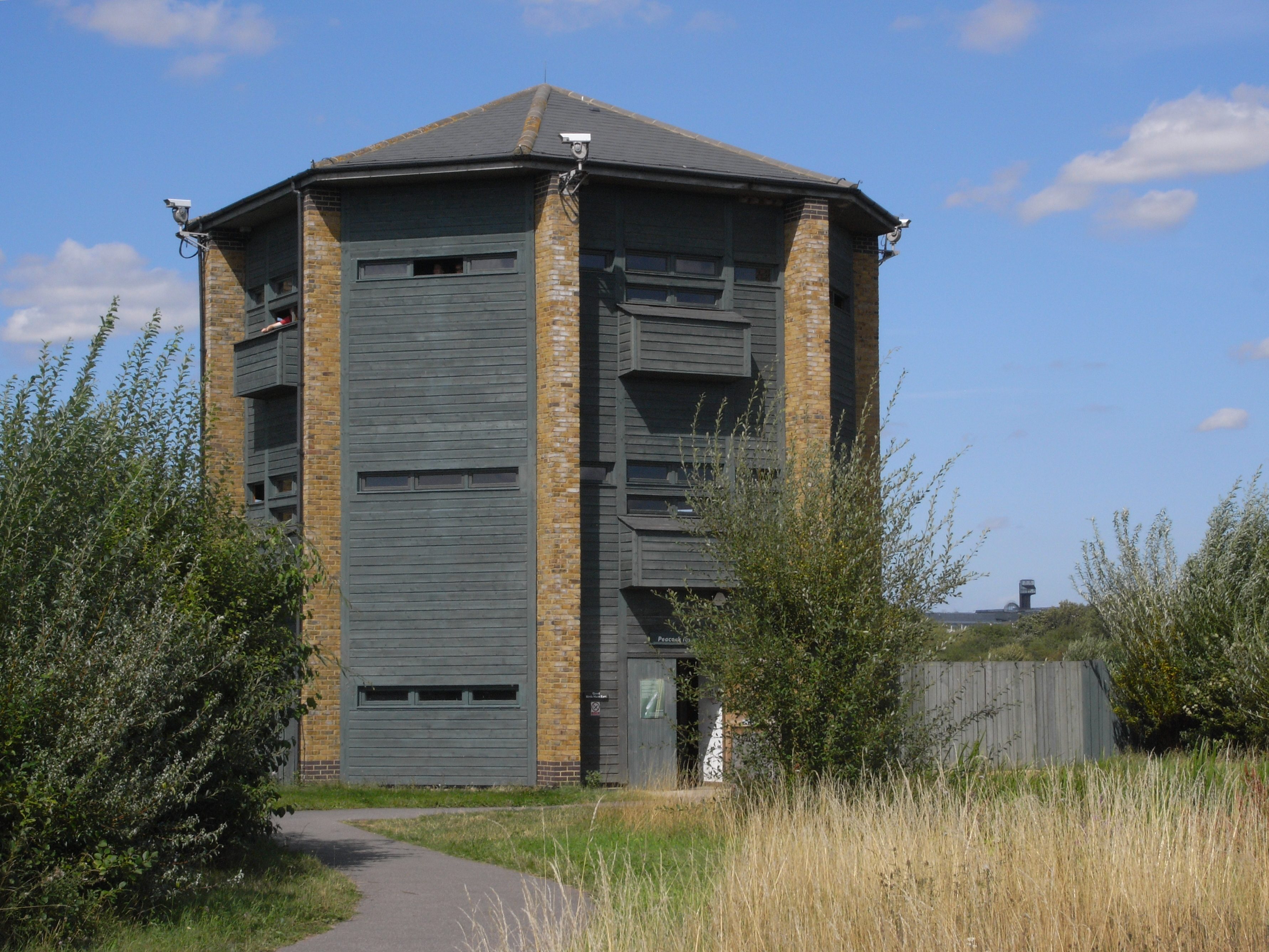 The Peacock Tower at the London Wetland Centre. This is a hide for bird observing.